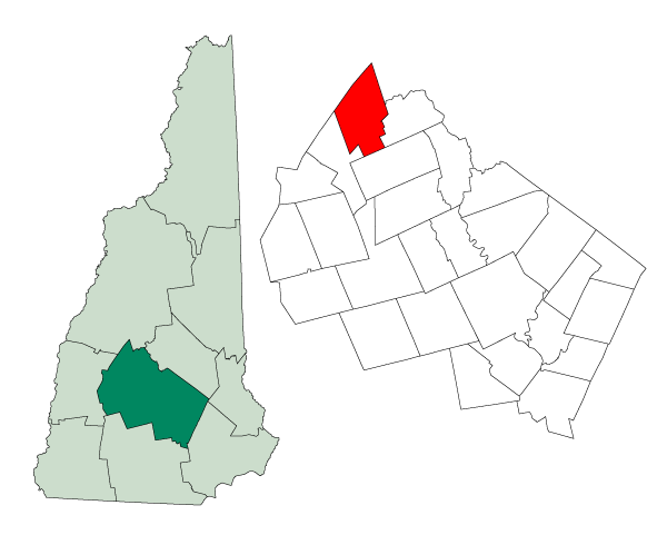 Map of a municipality in Merrimack County, New Hampshire